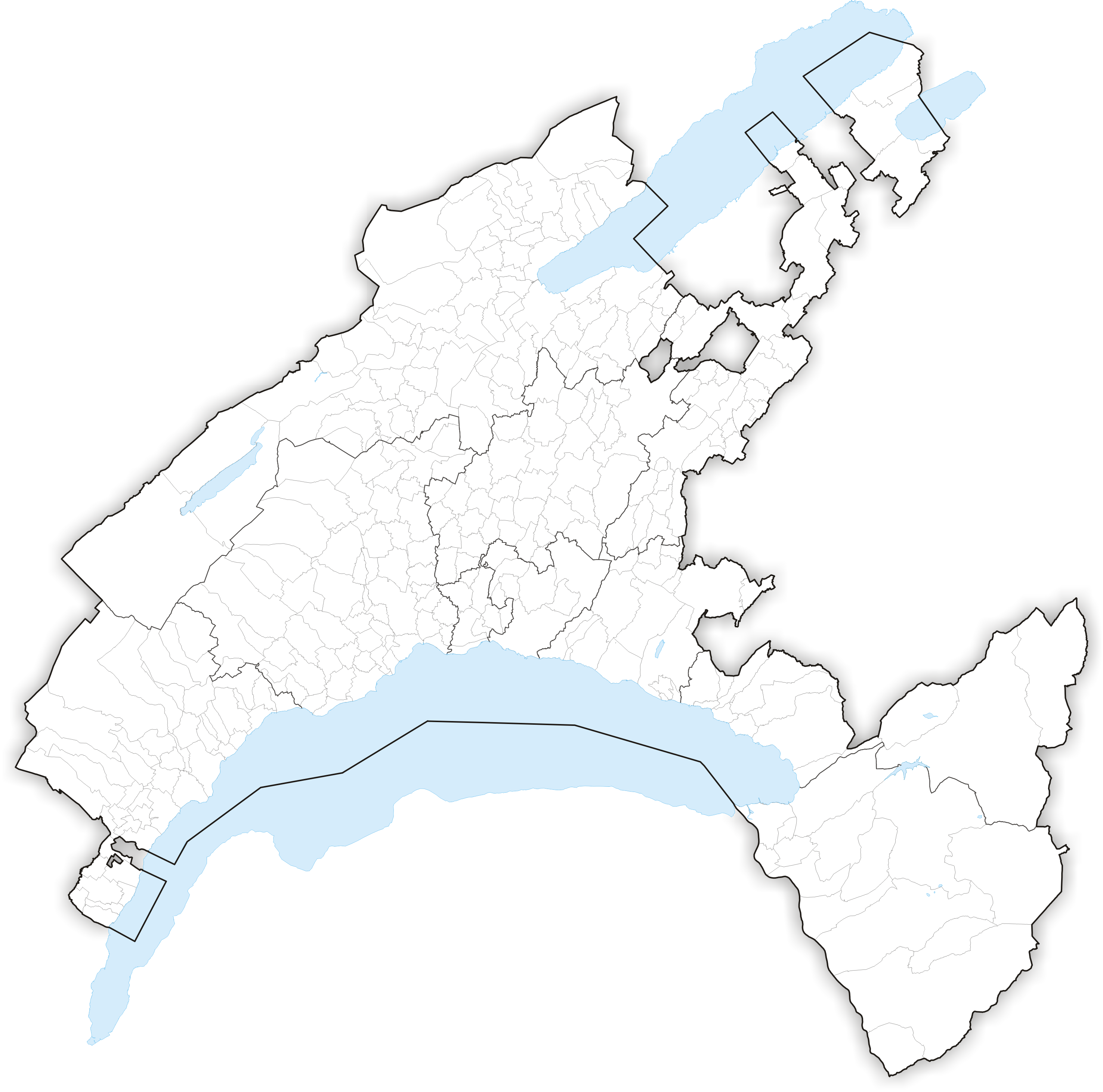 Municipalities in Canton Waadt